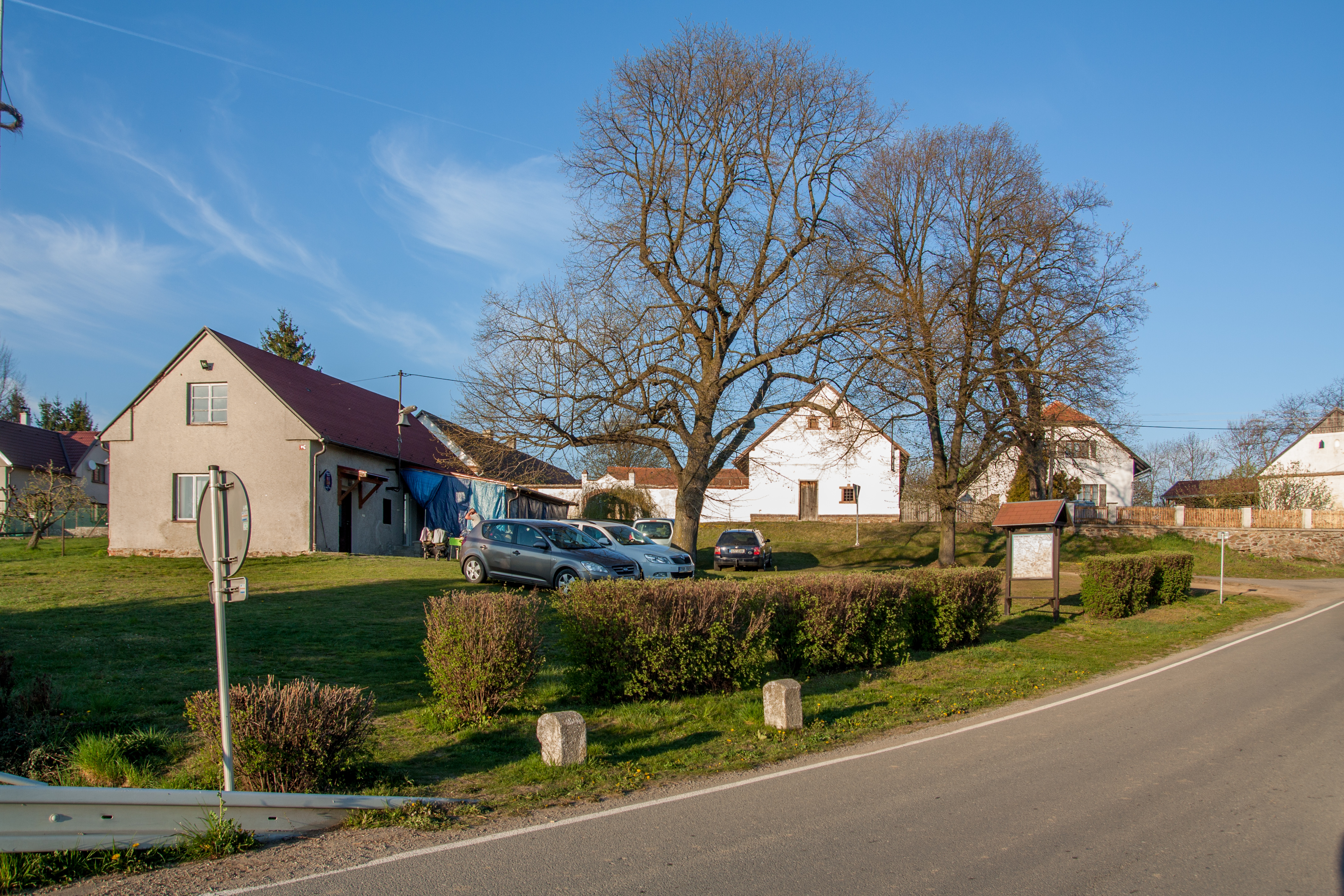 Vilklage square in municipality Zhoř u Mladé Vožice, Tábor District, South Bohemian Region, Czechia